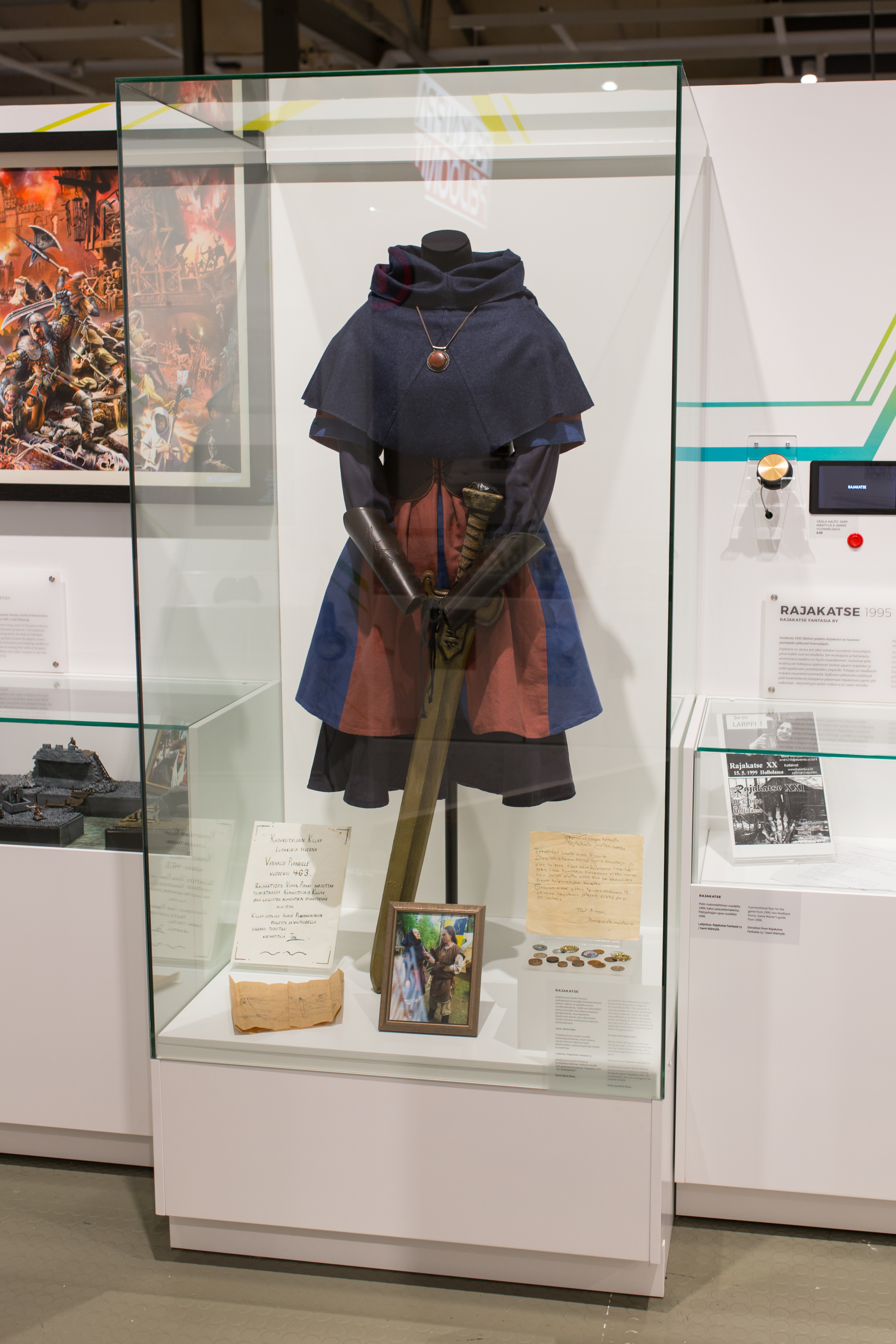 Rajakatse Larp dress in the Finnish Museum of Games